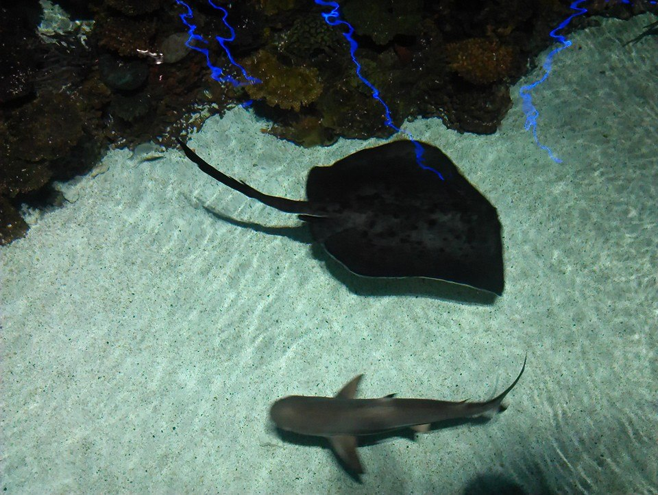 Shark and Sting Ray at the National Aquarium (Baltimore)